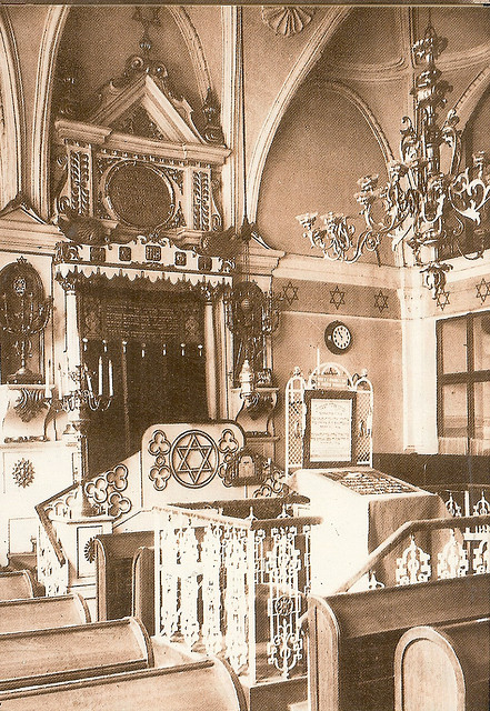 High Synagogue interior. Probably built the same time as the Jewish City Hall. Built in 1568 and reconstruction after the Prague Ghetto fire was in 1689.